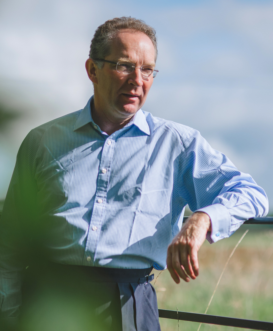 Iain Rawlinson